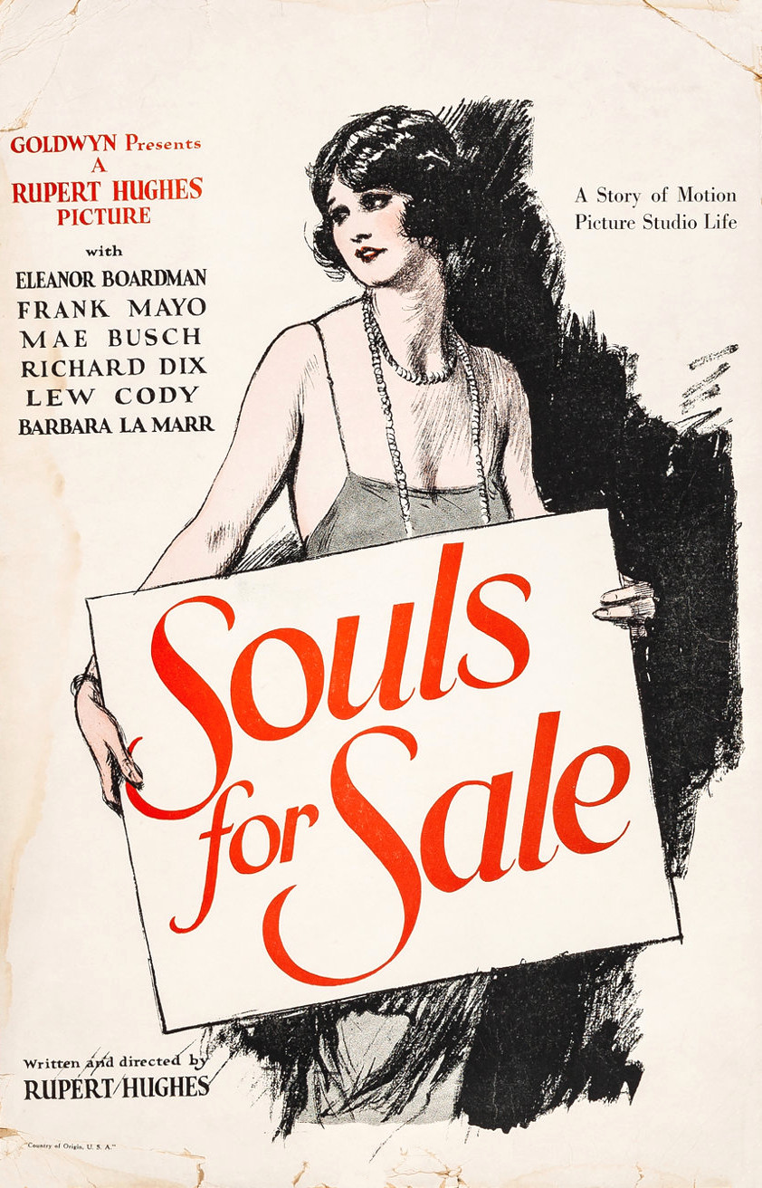 Movie poster for the American film Souls for Sale (1923).